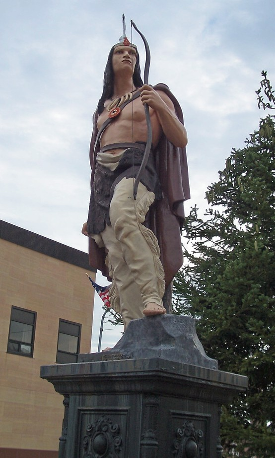 Statue of "Old Ish" — a Native American of Michigan Placed in downtown Ishpeming, Marquette County, Michigan — in 1884.